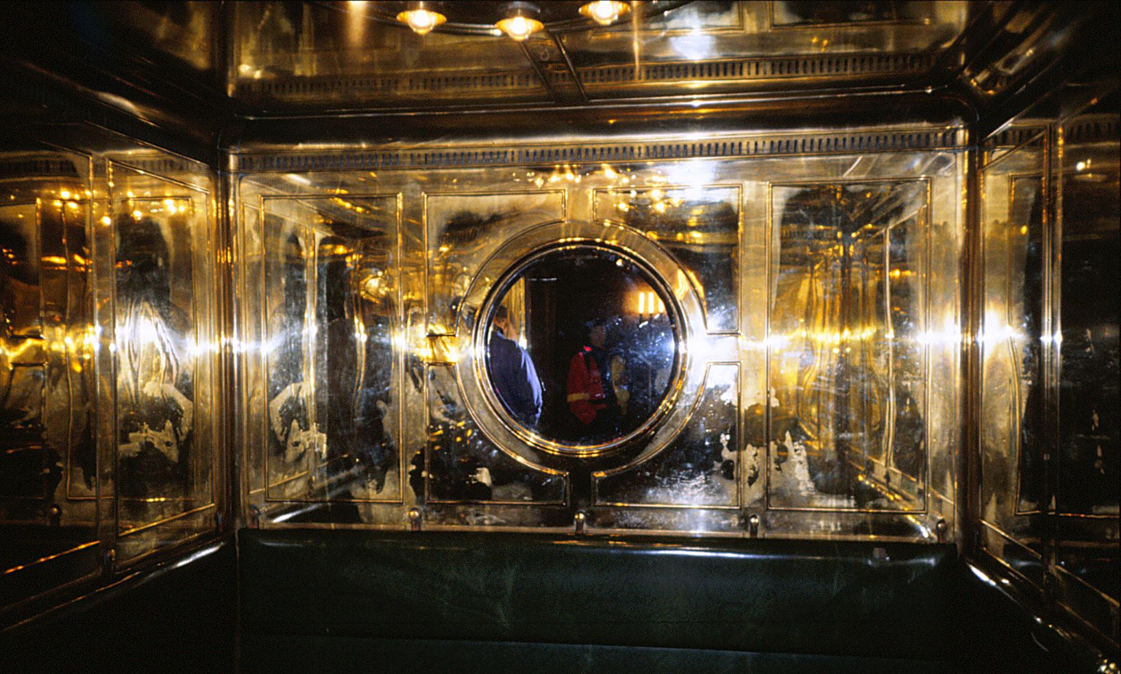 The golden elevator in Kehlsteinhaus near Berchtesgaden, Germany. June 17, 1999.